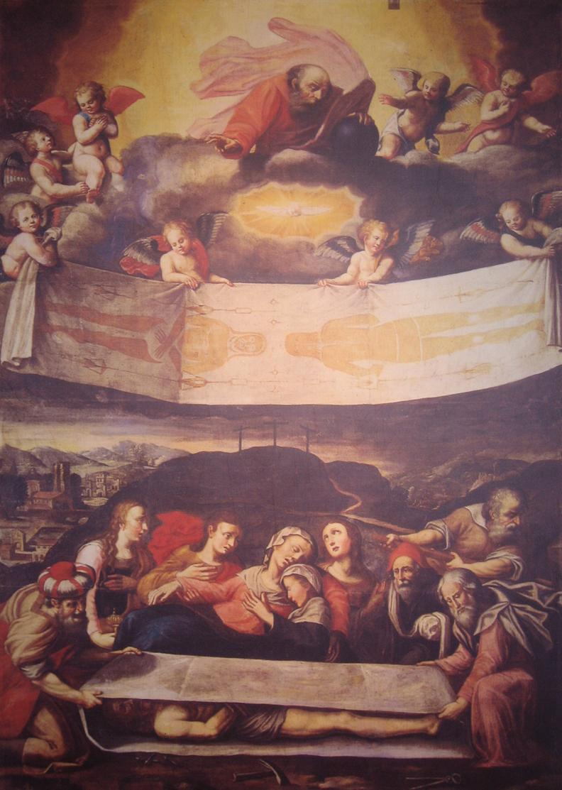 Burial of Jesus.